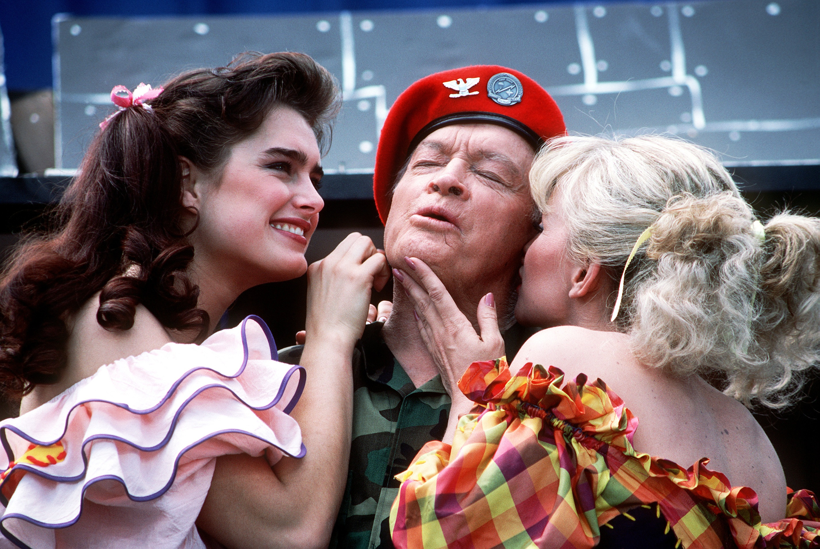 Comedian Bob Hope, actress Brooke Shields, left, and country music singer Barbara Mandrell perform in a skit during "Bob Hope's High Flying Birthday Extravaganza," a television show celebrating comedian Bob Hope's 84th birthday.